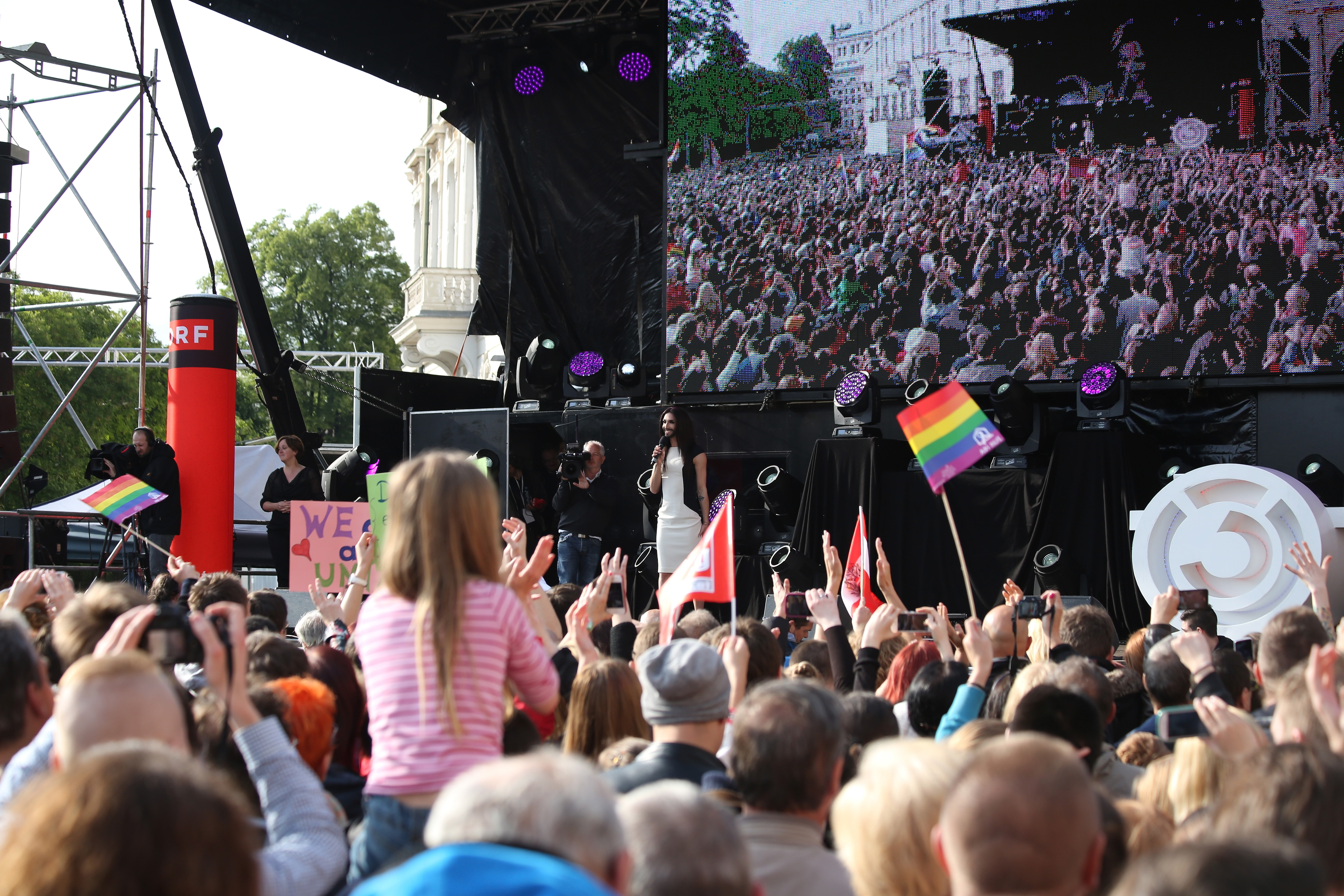 On 18 May 2014 Conchita Wurst, winner of the Eurovision Song Contest 2014 on 10 May, was officially received at the Federal Chancellery of Austria. After that she gave a performance on Ballhausplatz in front of an estimated audience of 12000 people (Vienna, Austria).